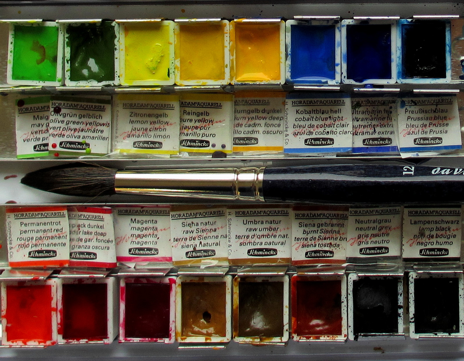 Box of watercolours by Schmincke, Erkrath, Germany